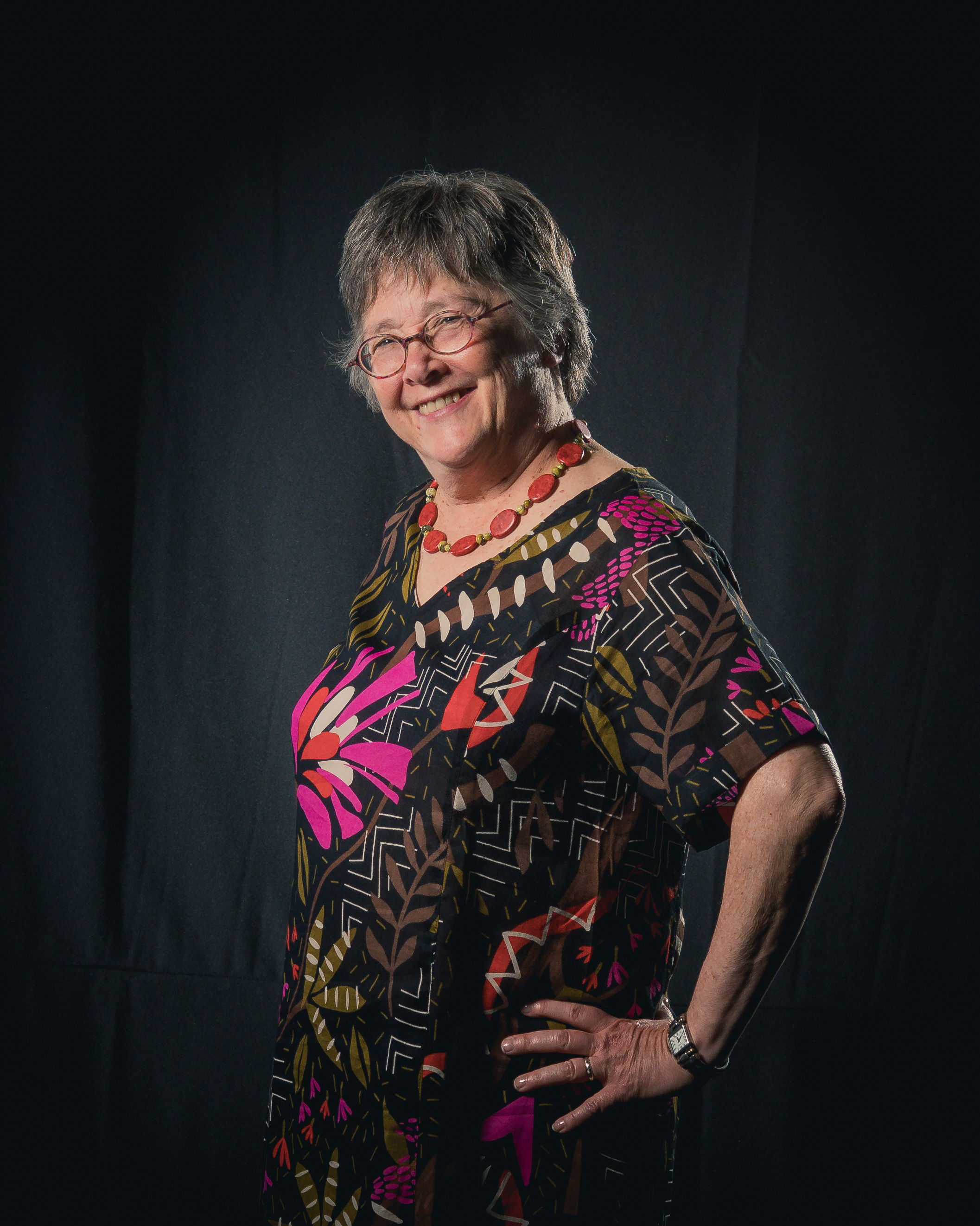 Portrait photoshoot at Worldcon 75, Helsini, before the Hugo Awards: Lisa Tuttle.